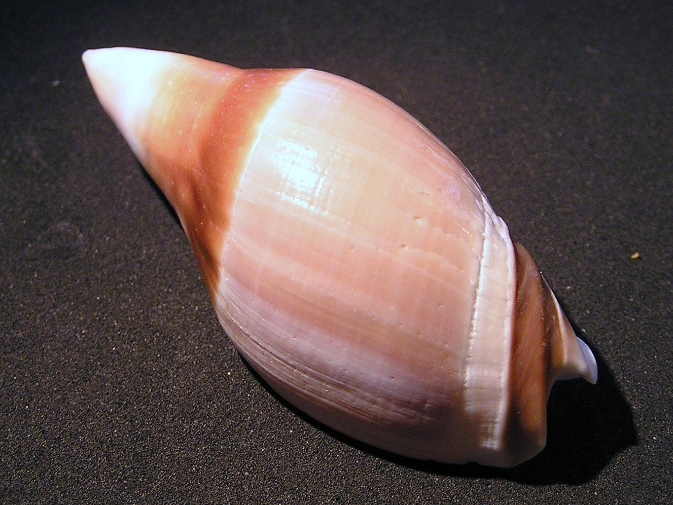 Amalda rubiginosa (Swainson, 1825), an olive snail in the family Olividae; the Netherlands